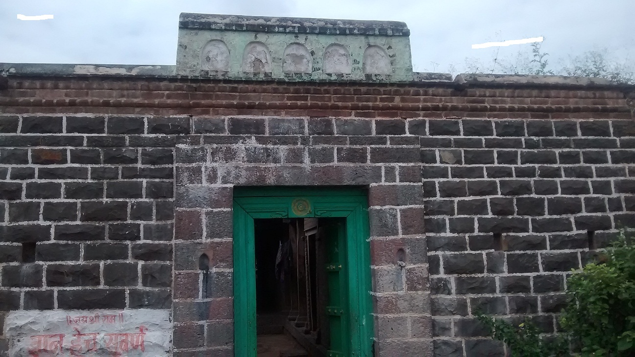 photo of rural India in Maharashtra community based house construction